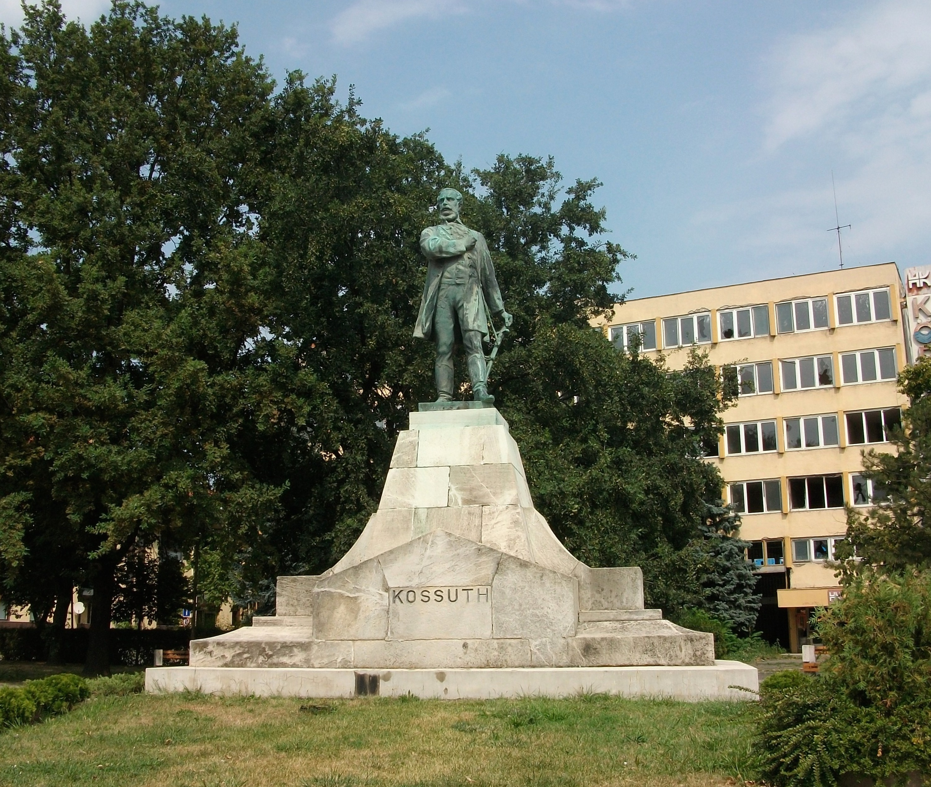 Statue of Lajos Kossuth, Békéscsaba, Hungary